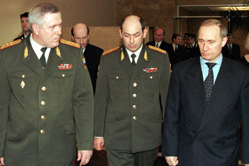 GORKY-9. With first Russian President Boris Yeltsin.